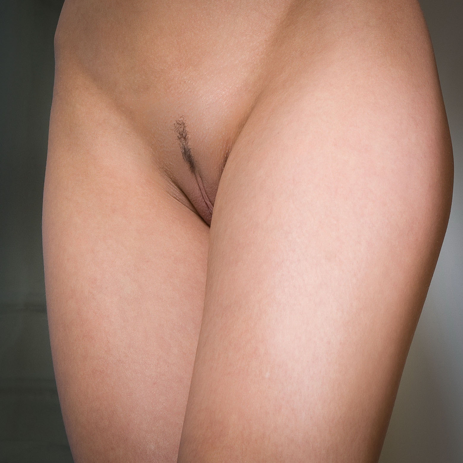 woman with pubic hair landing strip or Brazilian style